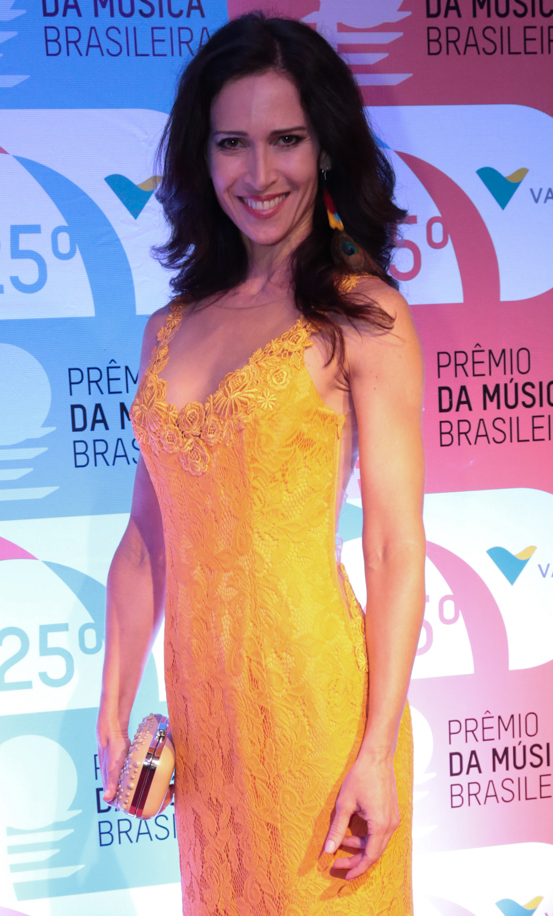 Brazilian actress Ingra Liberato at 25nd Prêmio da Música Brasileira in Theatro Municipal. (cropped version)